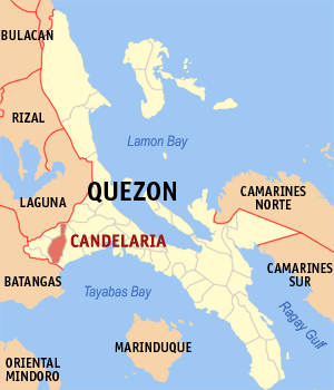 Map of Quezon showing the location of Candelaria